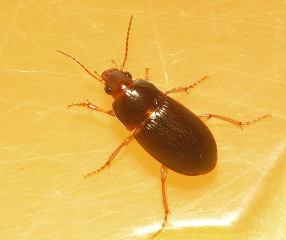 Amara bifrons, location: The Netherlands - Rhenen - Blauwe Kamer